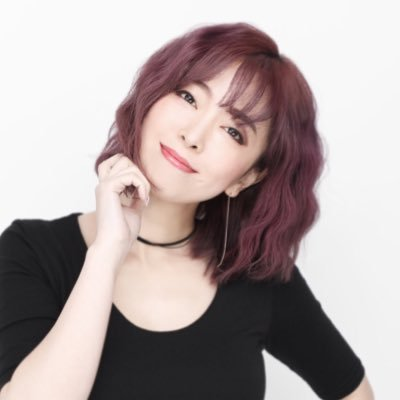 Her own twitter profile's portfolio.